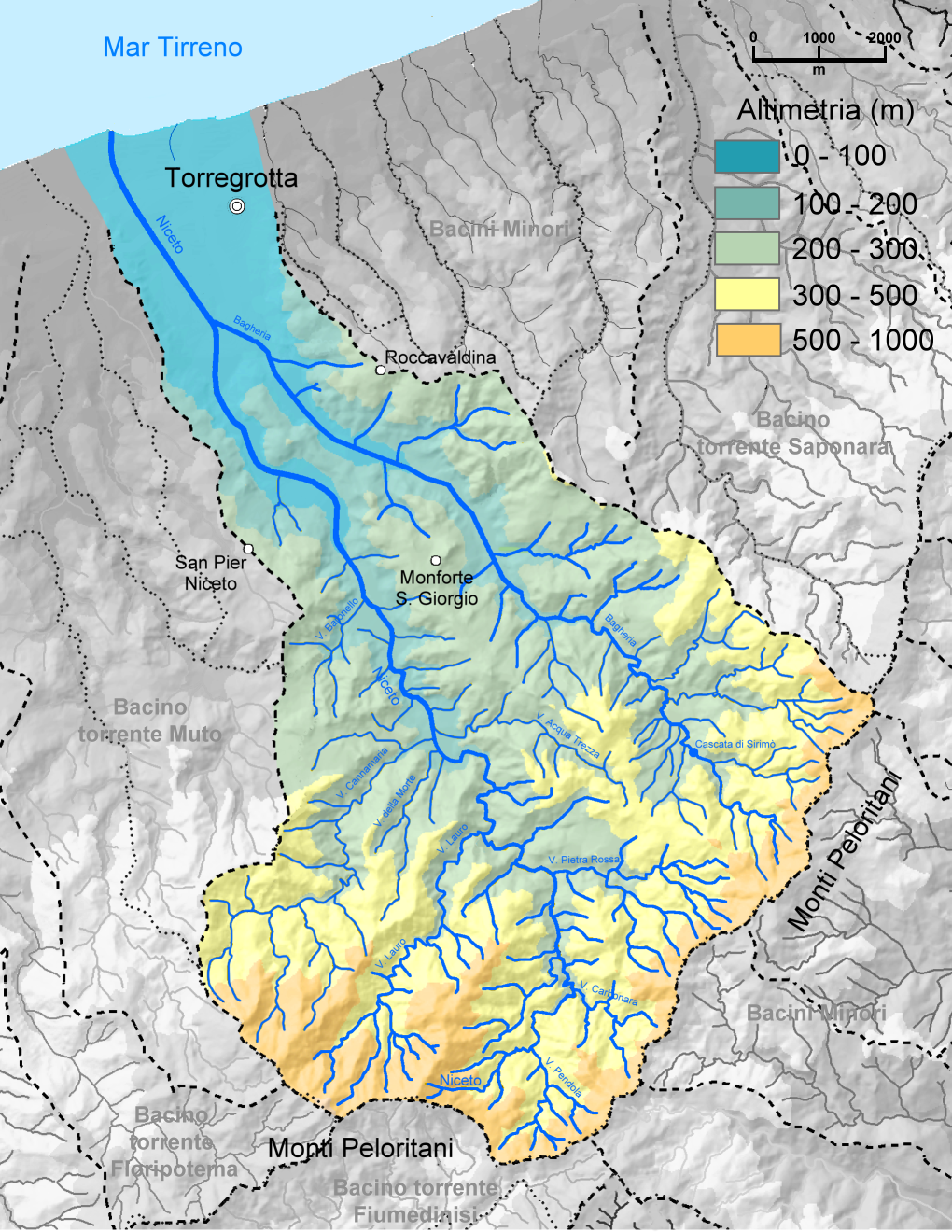 Catchment of the River Niceto.